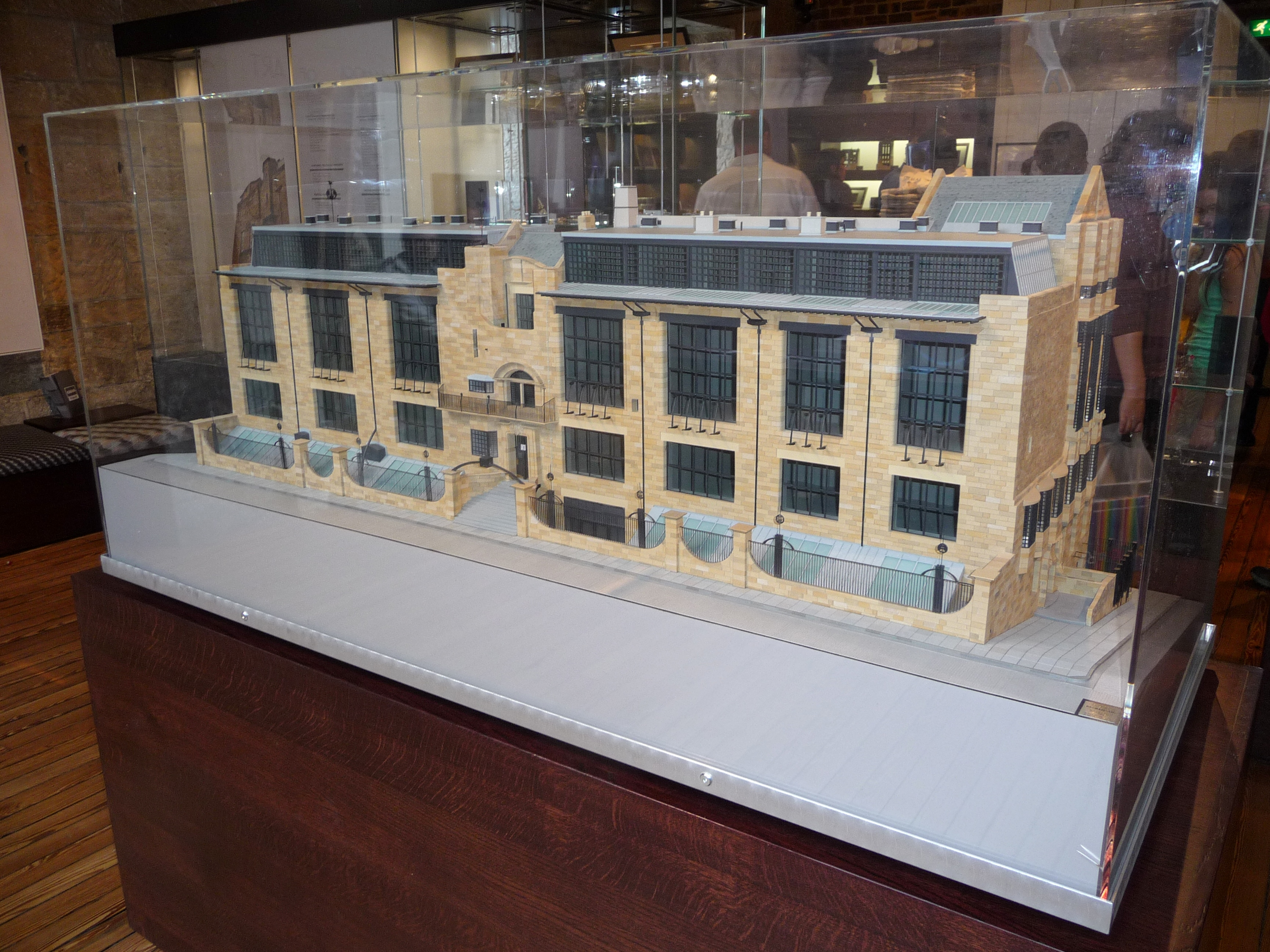 Glasgow School of Art, the Mackintosh Building, built 1897–1909 by Charles Rennie Mackintosh (1868–1928). Model.